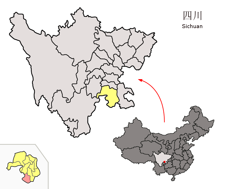 Location of Junlian County (pink) and Yibin Prefecture (yellow) within Sichuan province of China Map drawn in october 2007 using various sources, mainly : Sichuan province administrative regions GIS data: 1:1M, County level, 1990 Sichuan Counties map from